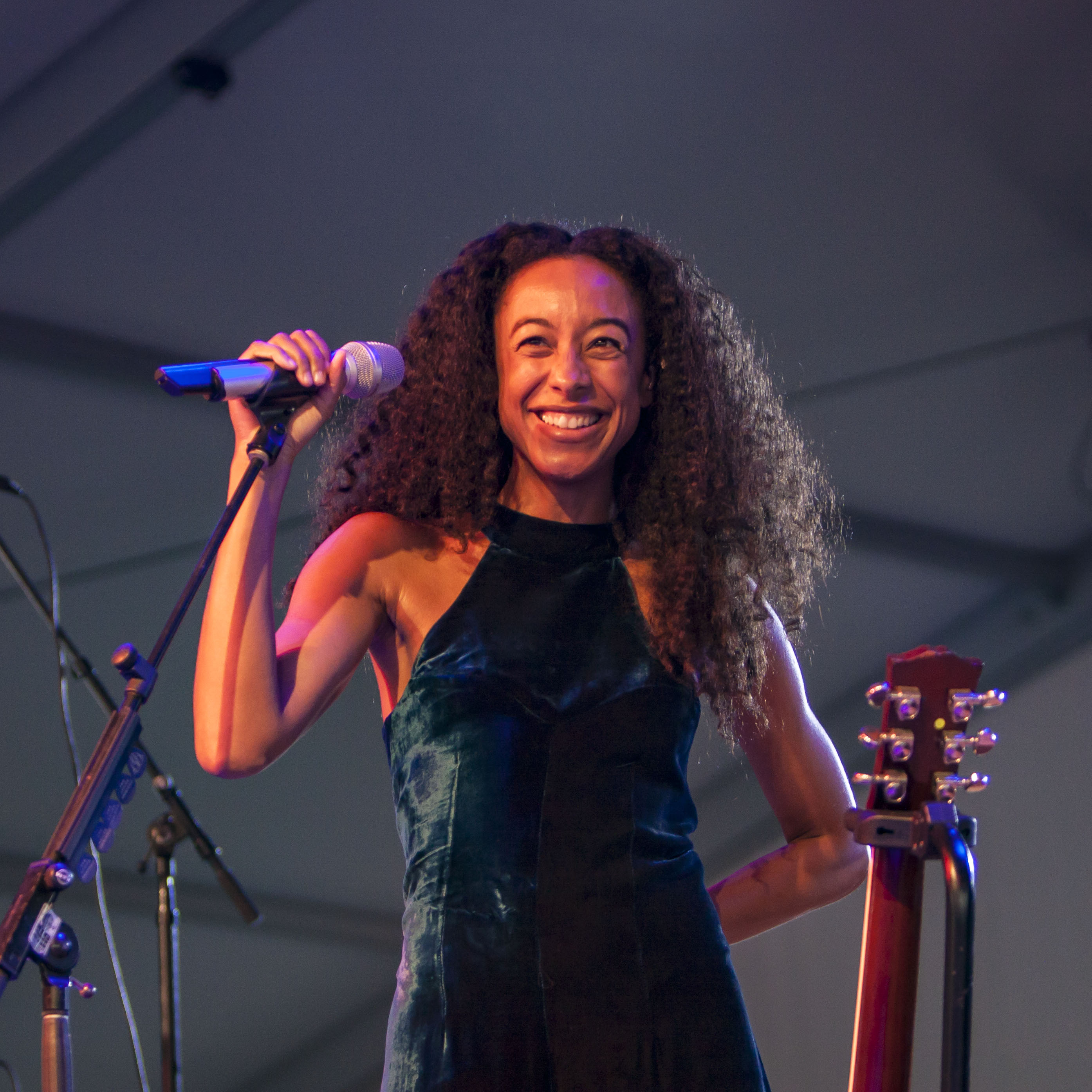 Corrine Bailey Rae ACL 2016